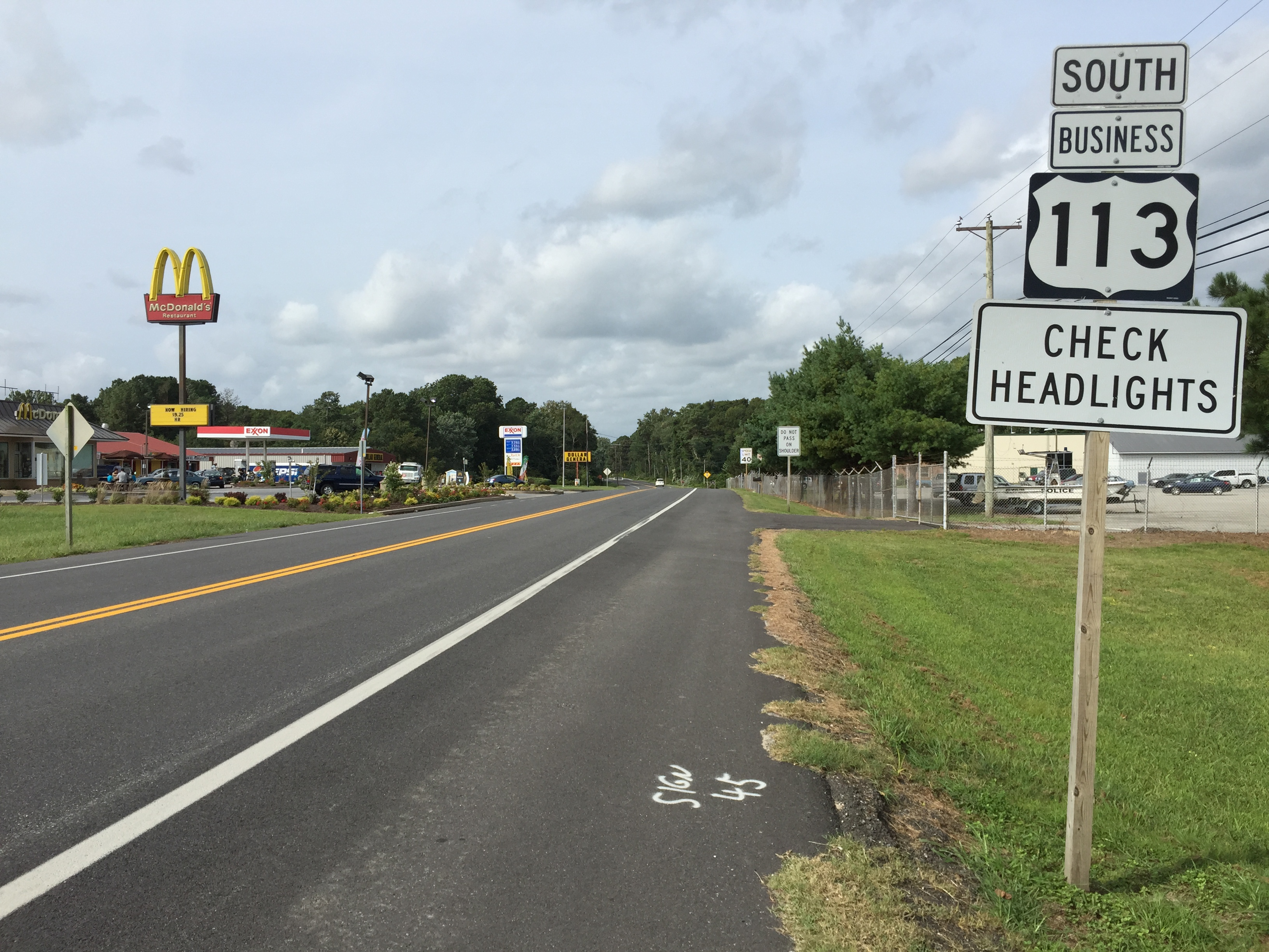 View south along U.S. Route 113 Business (Market Street) at Tyson Lane in Snow Hill, Worcester County, Maryland